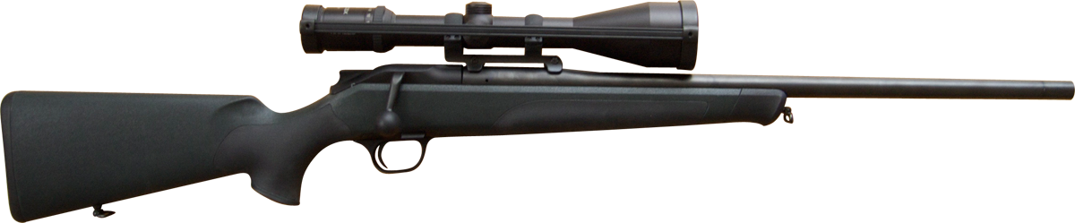 Blaser R8 Profesional 9.3x62 mm